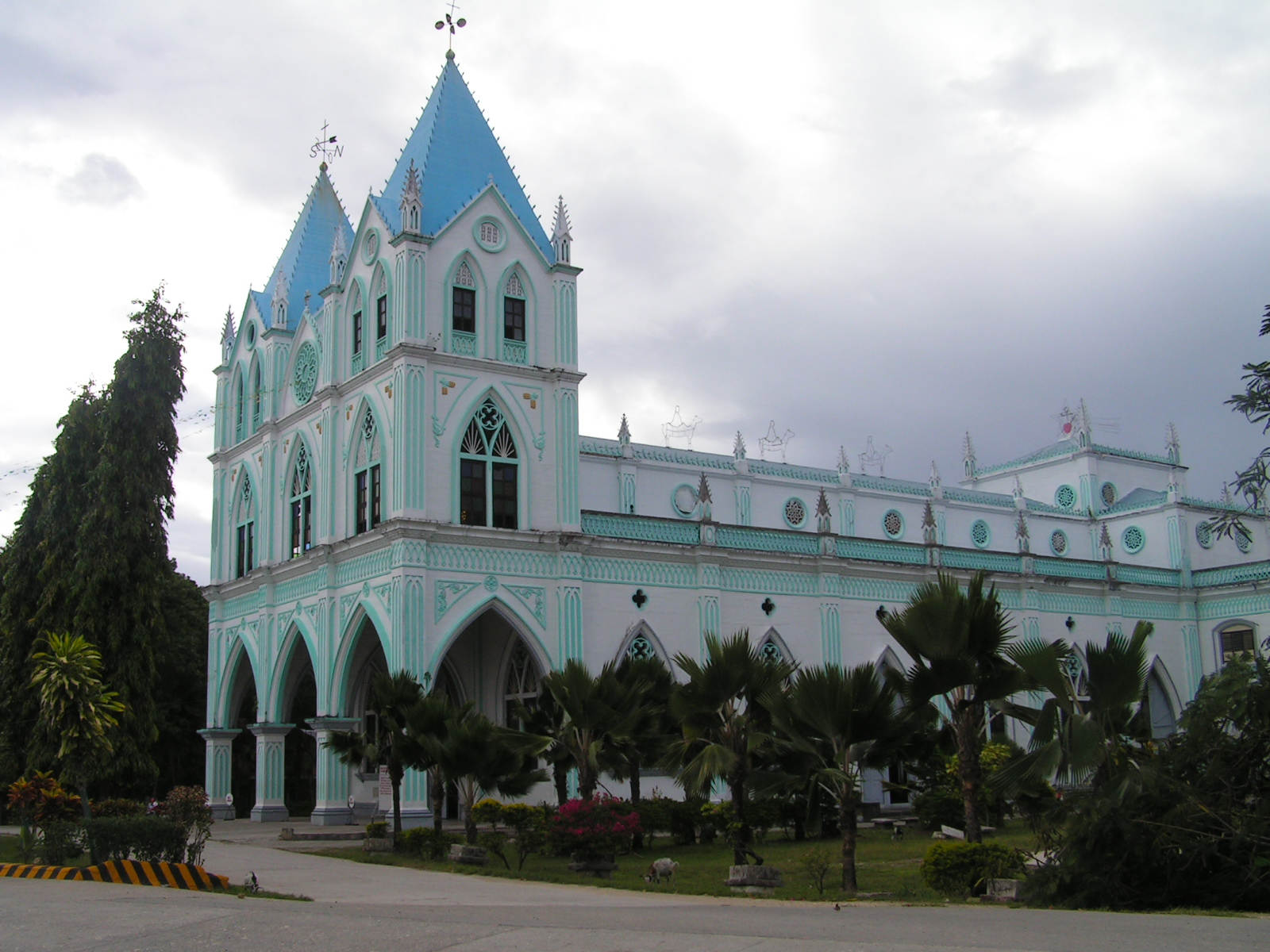 self-taken